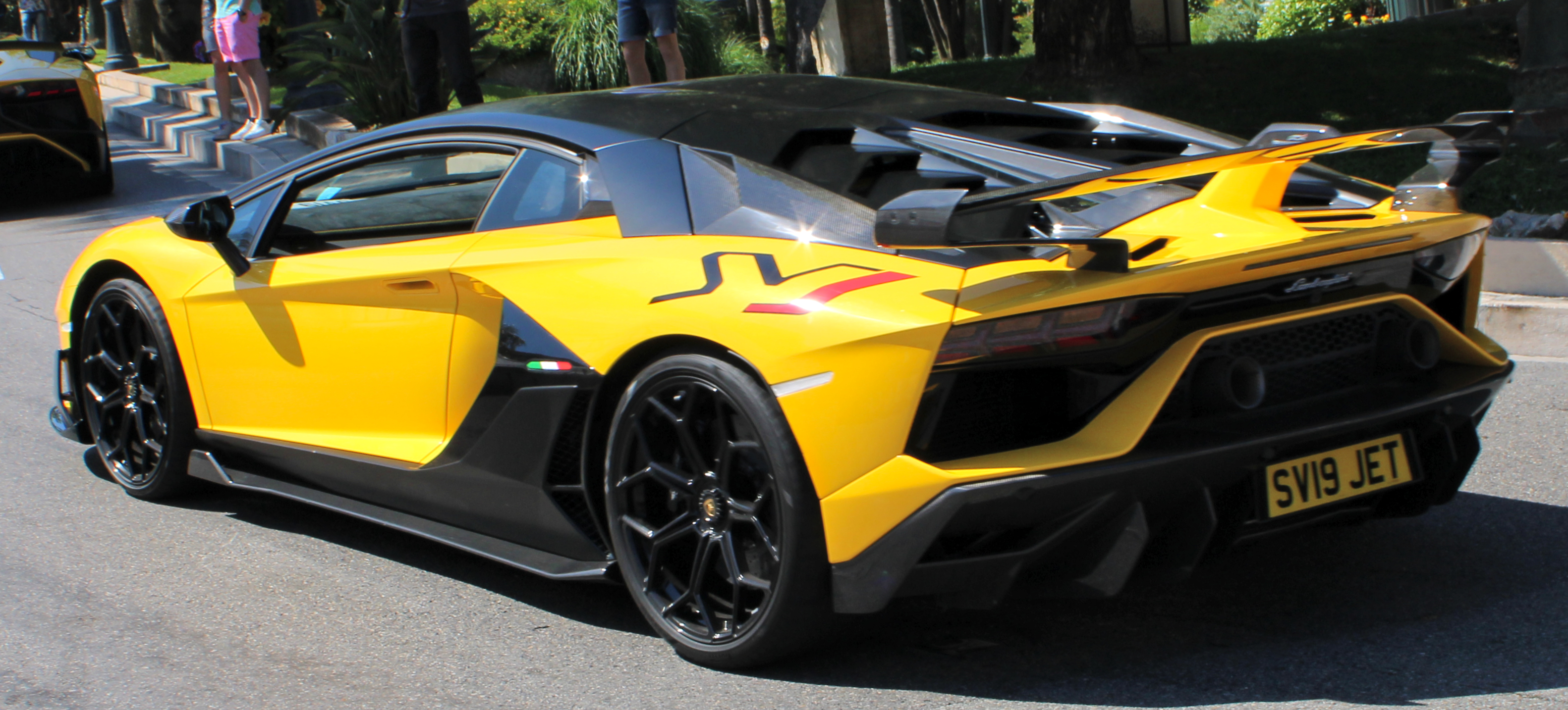 Lamborghini Aventador SVJ in Monaco